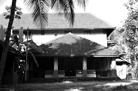 I am its author.The user 2000 10:41, 29 December 2006 (UTC) I am its author.The user 2000 10:42, 29 December 2006 (UTC)